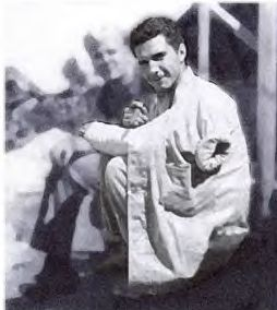 "Hell is Upon Us: D-Day in the Pacific-Saipan to Guam, June-August 1944"; by: Brooks, Victor: Da Capo Press, page 284 p. ISBN: 0306813696